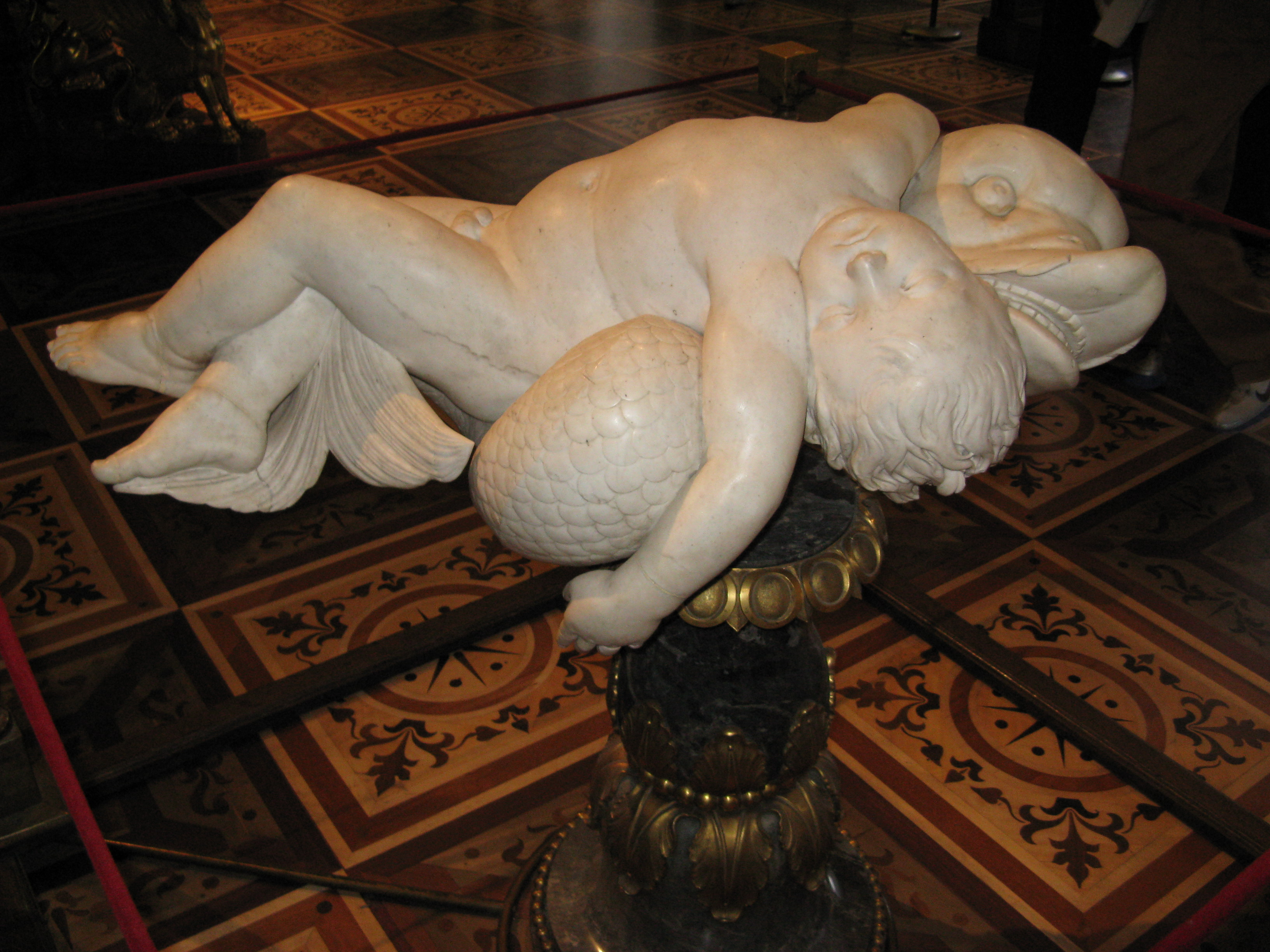 A Dead Boy on a Dolphin by Raphael's disciple Lorenzo Lorenzetti (1490-1541) at the Majolica Room in the Hermitage.